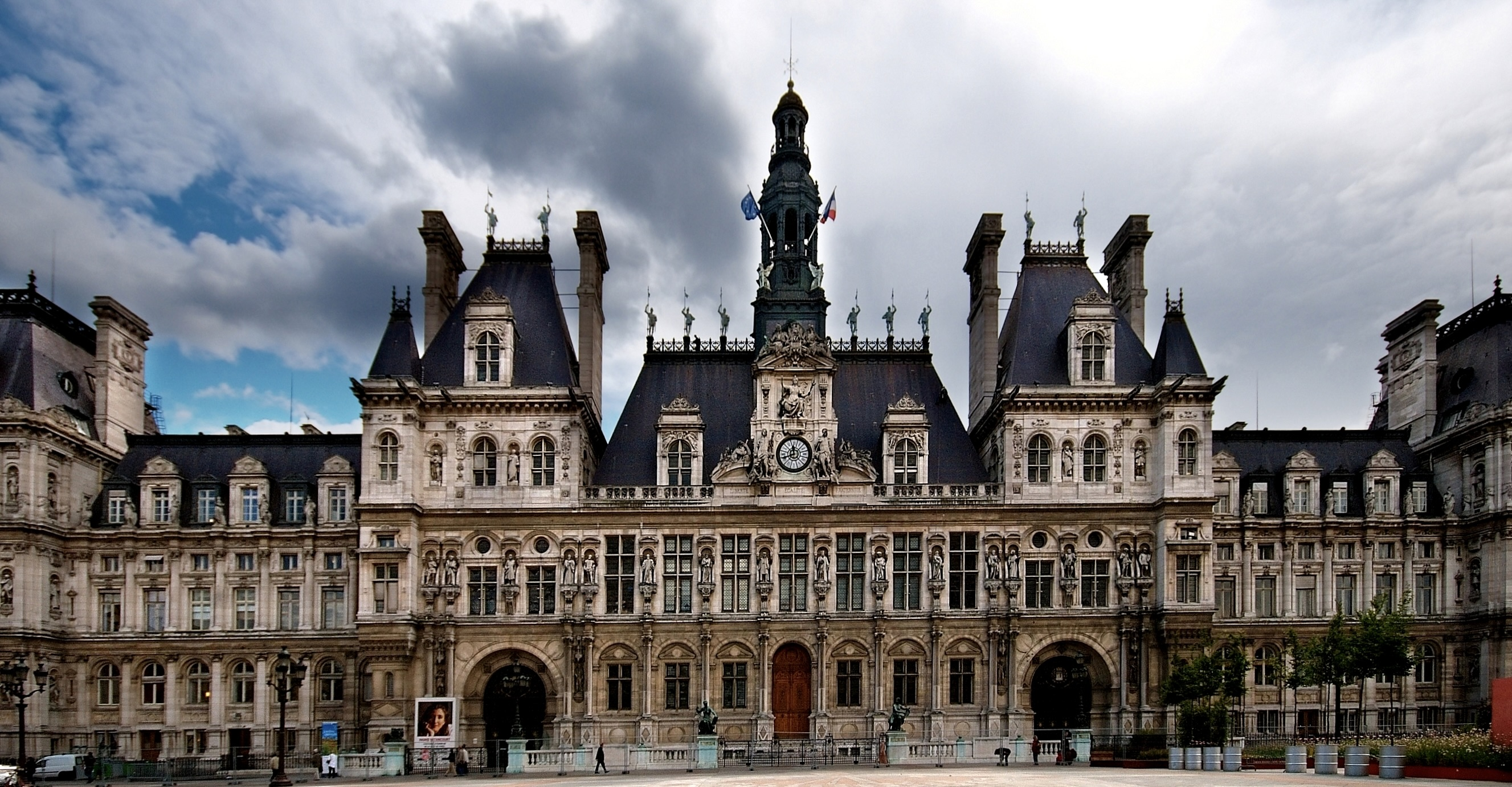 Mairie de Paris.